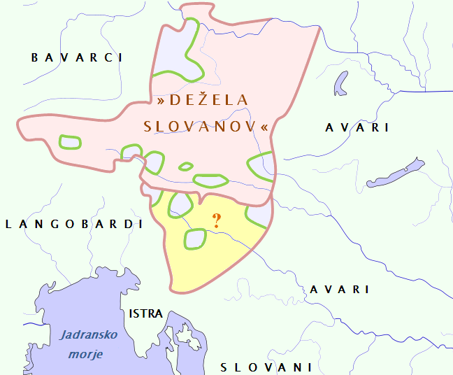 Marca Vinedorum –sl version. Compare with: Čepič et al. (1979): Zgodovina Slovencev. Ljubljana, Cankarjeva založba. Page 105; Korošec Paola (1990). Alpski Slovani. Ljubljana. Znanstveni inštitut Filozofske fakultete. Page 18; Božič et al (1999). Zakladi tisočletij: zgodovina Slovenije od neandertalca do Slovanov. Ljubljana, Založba Modrijan. Page 234; Štih, P. (1986). Ozemlje Slovenije v zgodnjem srednjem veku: Osnovne poteze zgodovinskega razvoja od začetka 6. stoletja do konca 9. Stoletja. Ljubljana, Filozofska fakulteta. Page 30.